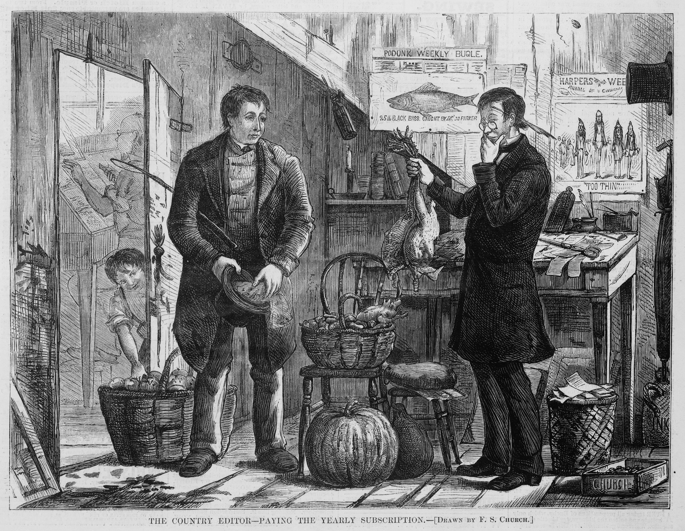 A newspaper illustration depicting a man engaging in barter, paying his yearly newspaper subscription to the "Podunk Weekly Bugle" with various farm produce.